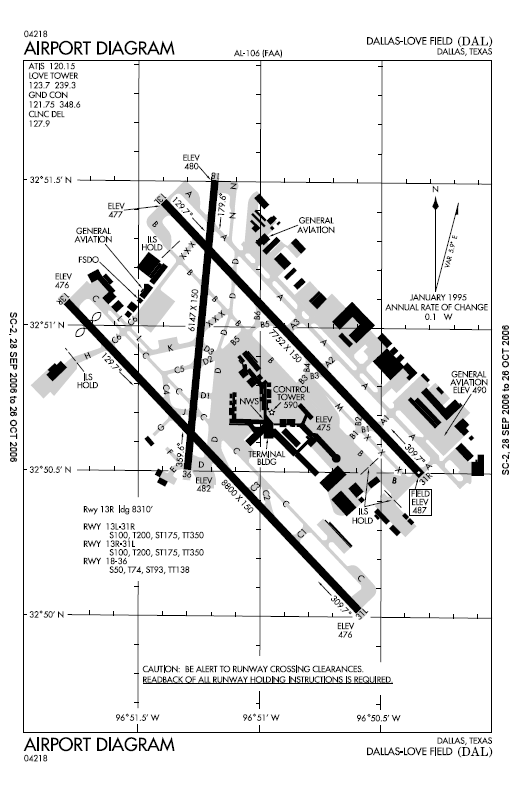 FAA airport diagram for Dallas Love Field (DAL) in Dallas, Texas, United States.